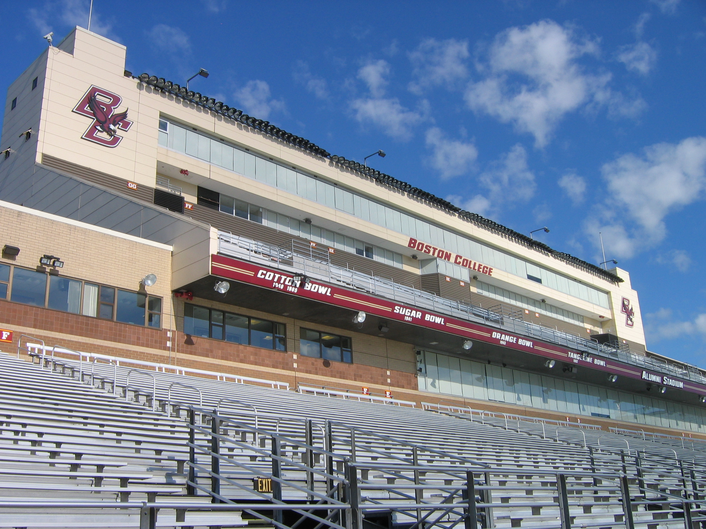 Football & Basketball Facilities Boston College Football Stadium